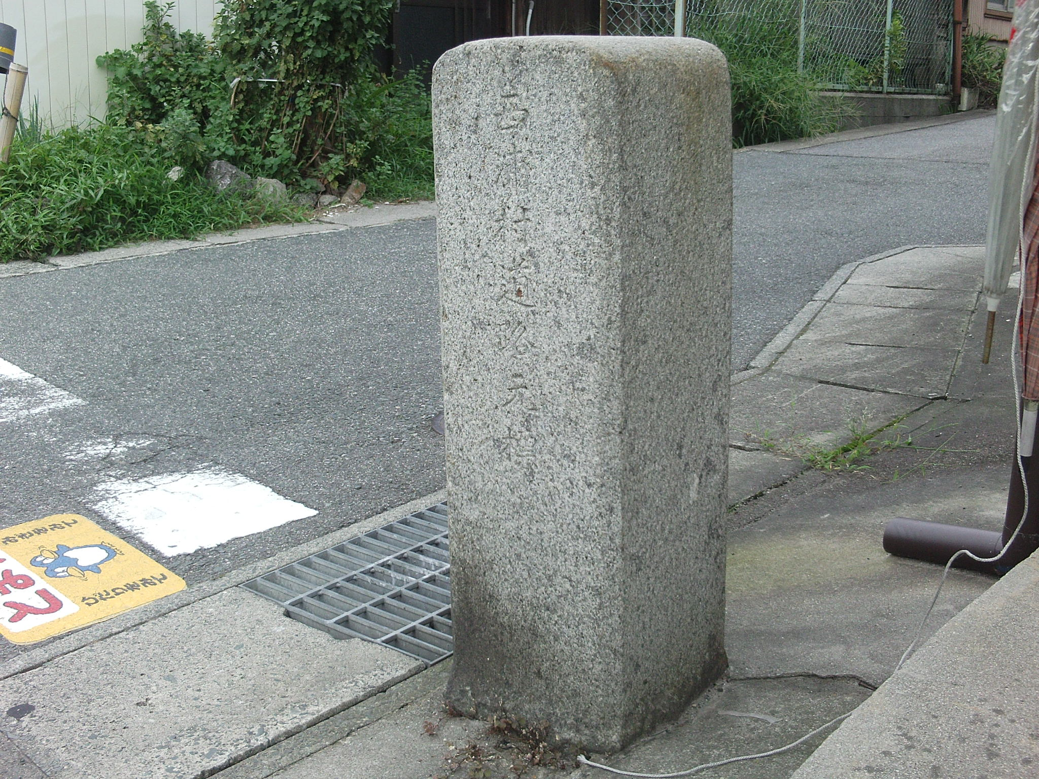 Kilometre zero of Nishiura village. (Nishiura village, Hoi-gun, Aichi.)